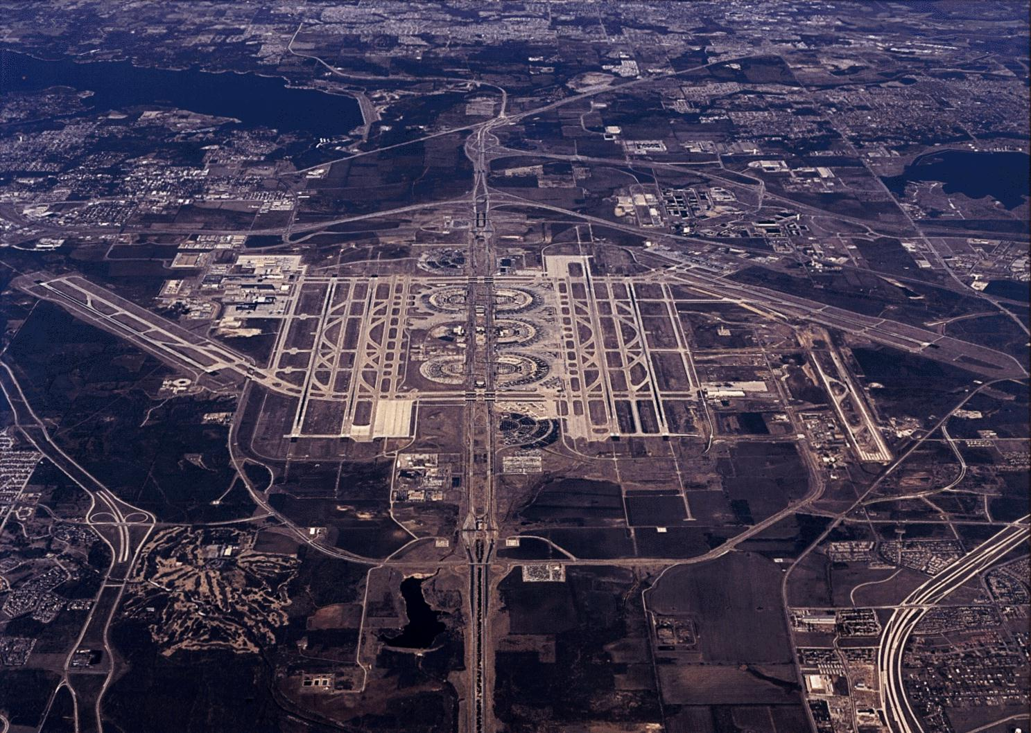 Dallas-Fort Worth International Airport (aerial photograph) prior to the construction of Terminal D.